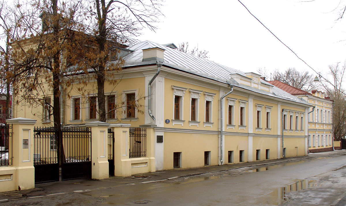 10, First Kadashevsky Lane